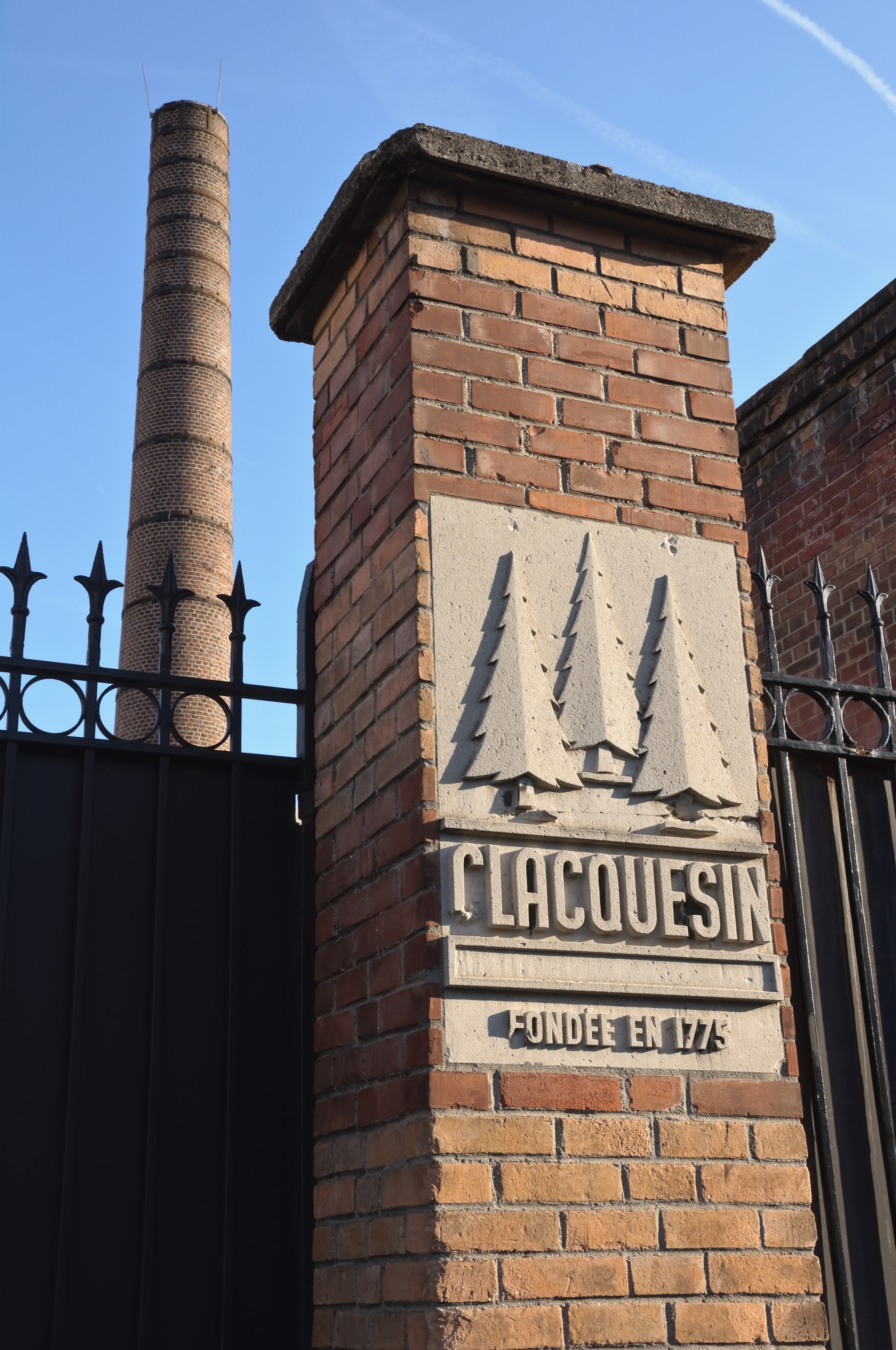 The Clacquesin factory, a former distillery in Malakoff, Hauts-de-Seine, France. Here the sign and the chimney. .